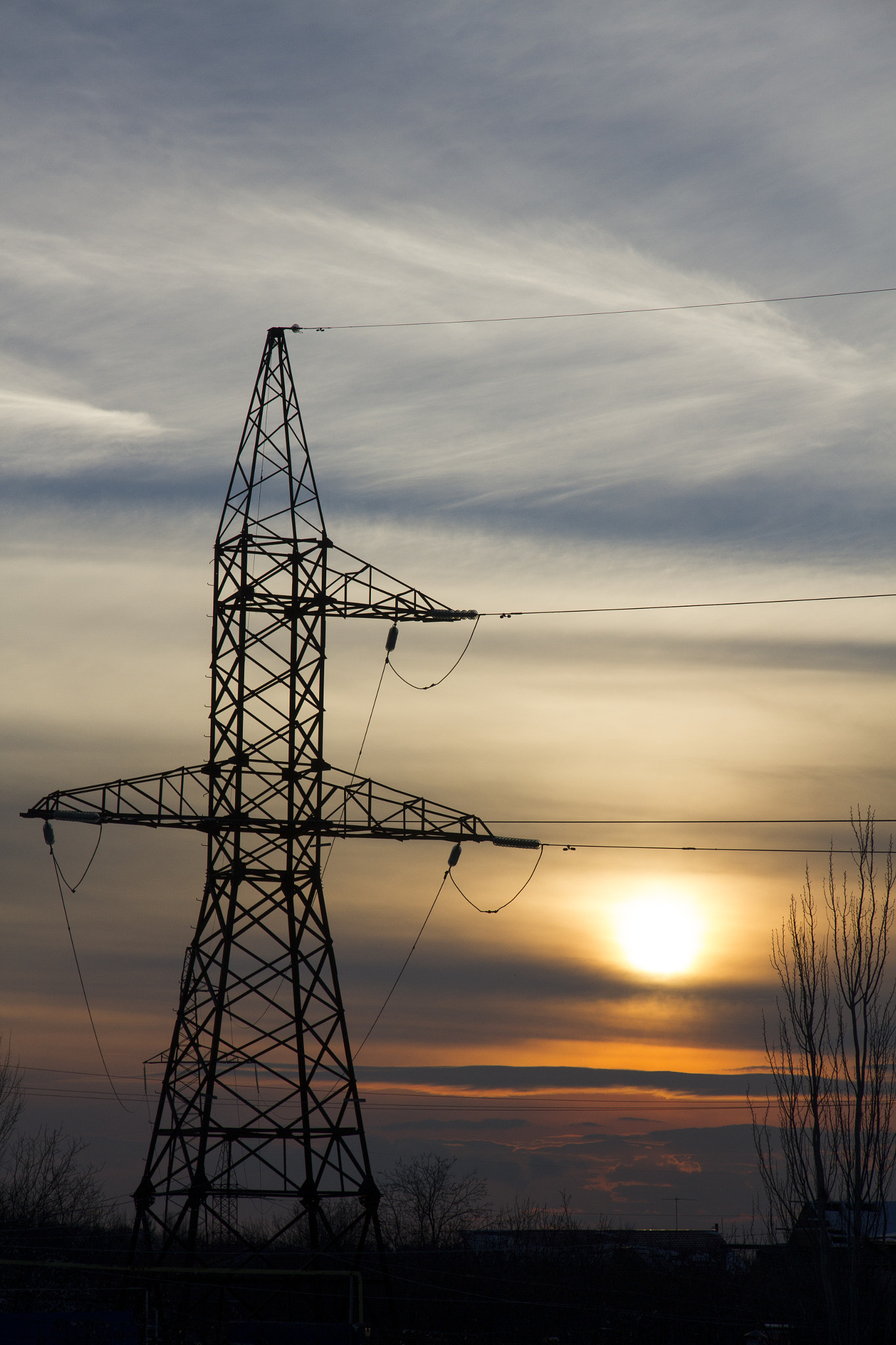 500px provided description: High voltage power lines at sunset. [#sunset ,#silhouette ,#high voltage]